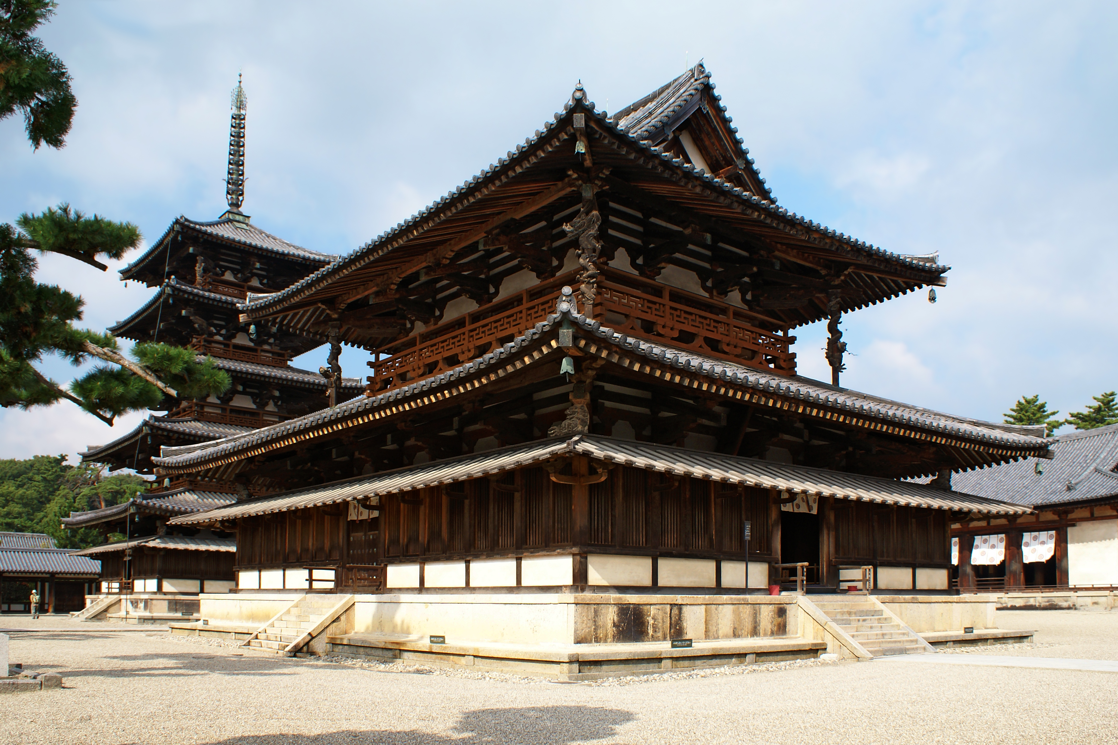 Golden Hall and Five-storied Pagoda of Hōryū-ji are Japan's National Treasures. Hōryū-ji is a Buddhist temple in Ikaruga, Nara prefecture, Japan. It was registered as part of the UNESCO World Heritage Site "Buddhist Monuments in the Hōryū-ji Area".